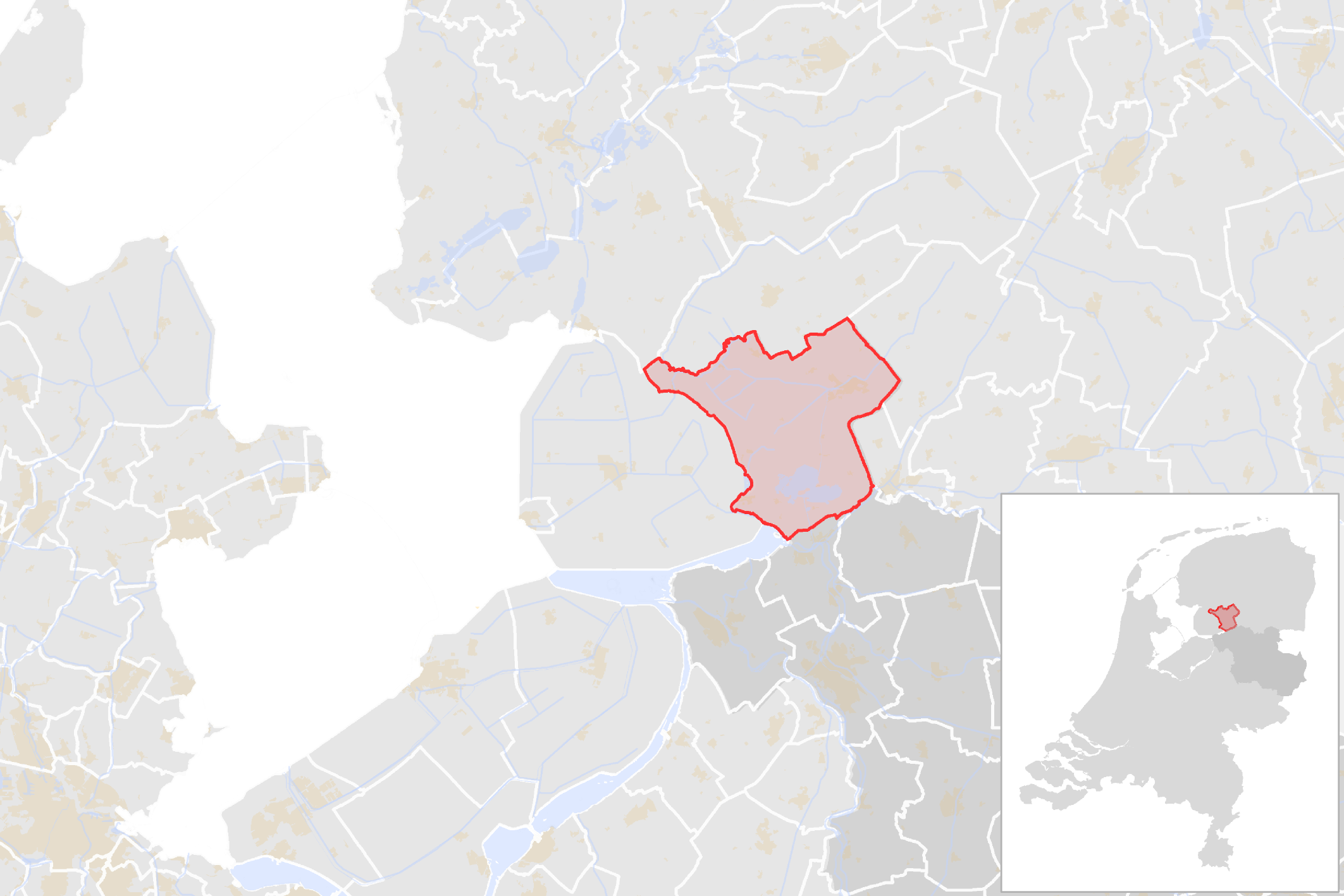 Locator map showing municipality boundary of one of the 390 Dutch municipalities (as of 2016)